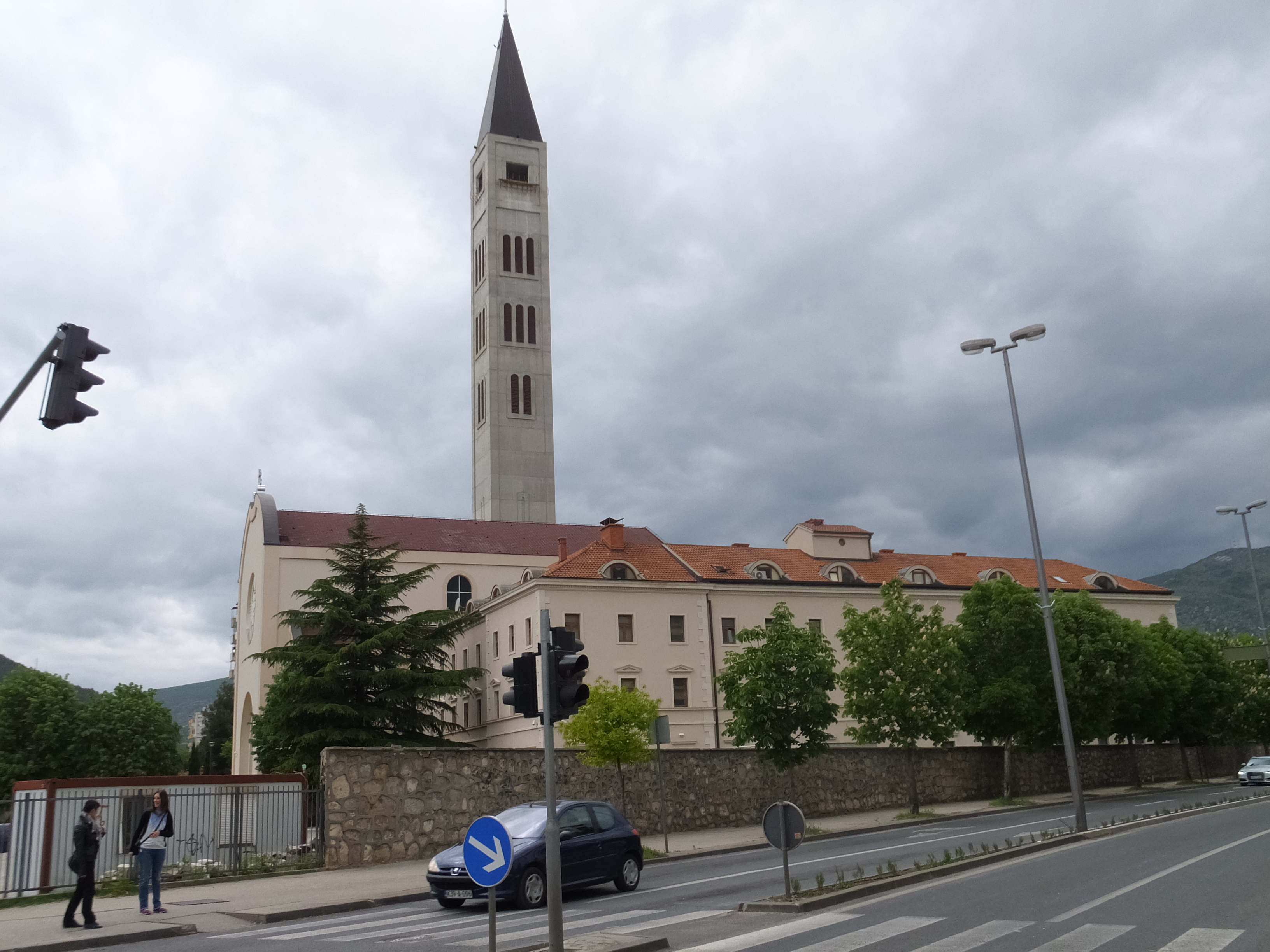 Parish Church of St. Peter and Paul